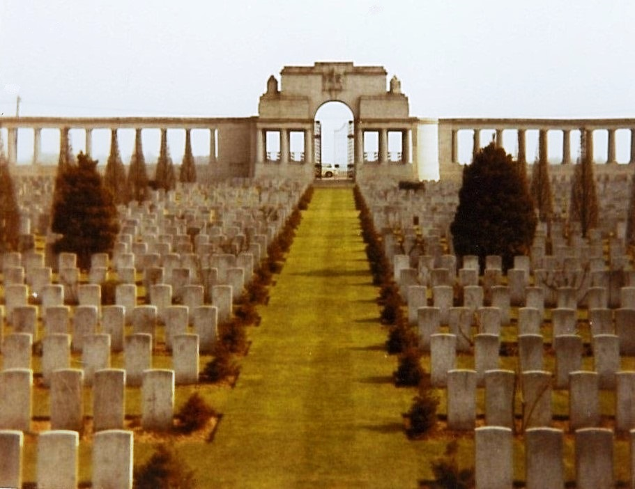 Pozières Memorial to the missing of the British Fifth and Fourth Armies, and associated Commonwealth War Graves Commission cemetery: view looking south-east from the Cross of Sacrifice towards the main entrance